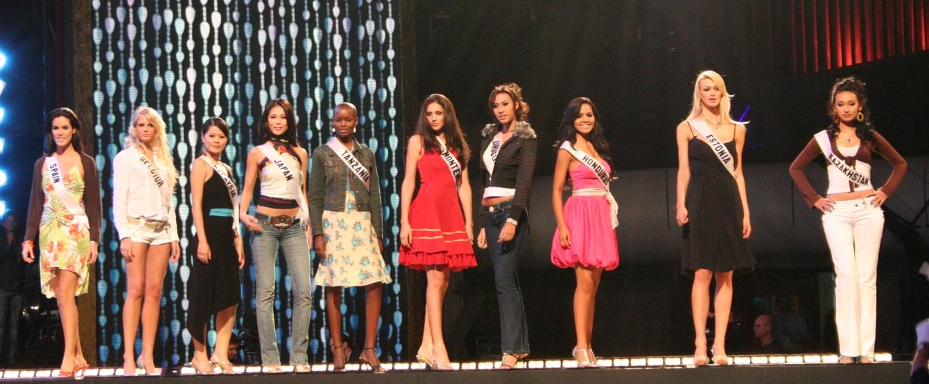 Contestants during rehearsals for the Miss Universe 2007 pageant in Mexico City, Mexico